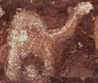 LaasGeel